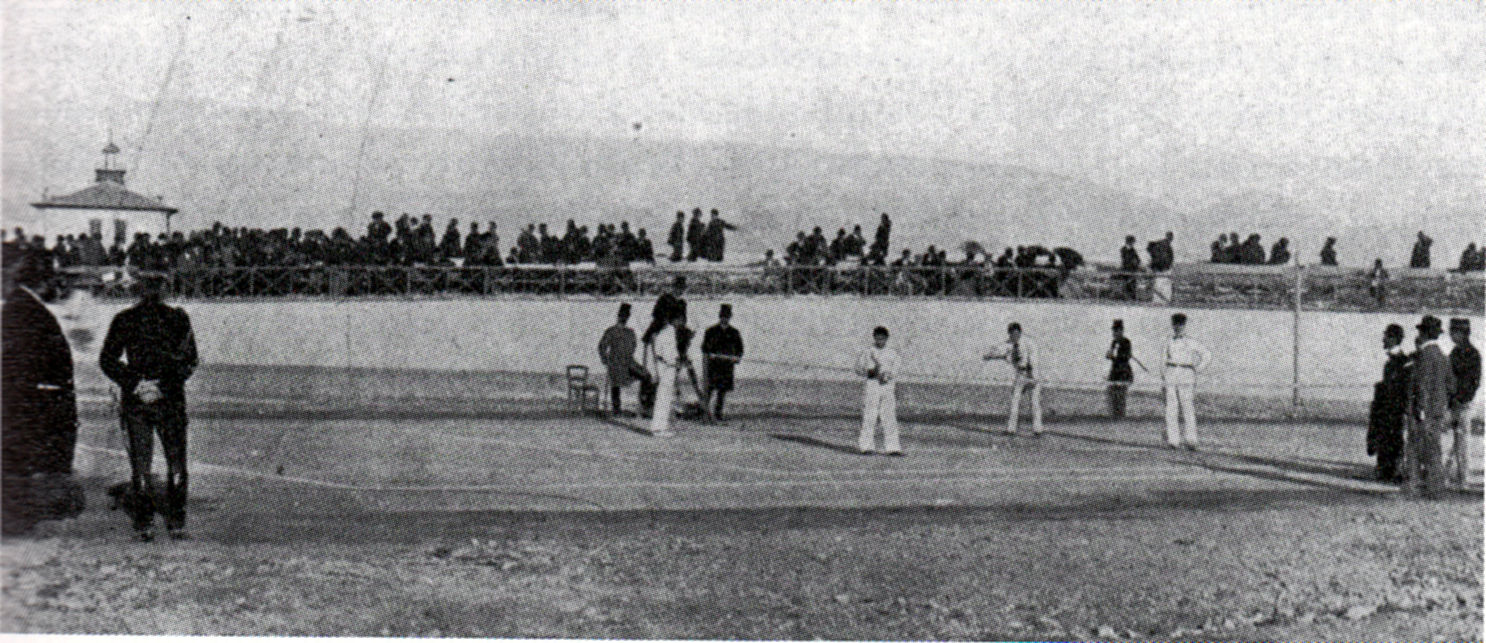 Olympic Games 1896, Tennis doubles final. Original desciption on the picture: "Eine Szene vom Lawn Tennis zu Phaleron" ("a scene of Lawn Tennis at Phaleron"). Below both players on the right side of the court is written "Traun" (left, refers to Friedrich Traun) and "Boland" (right, John Pius Boland).